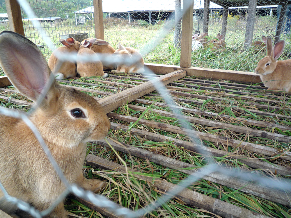 Pastured meat rabbits at Polyface Farm in Virginia.